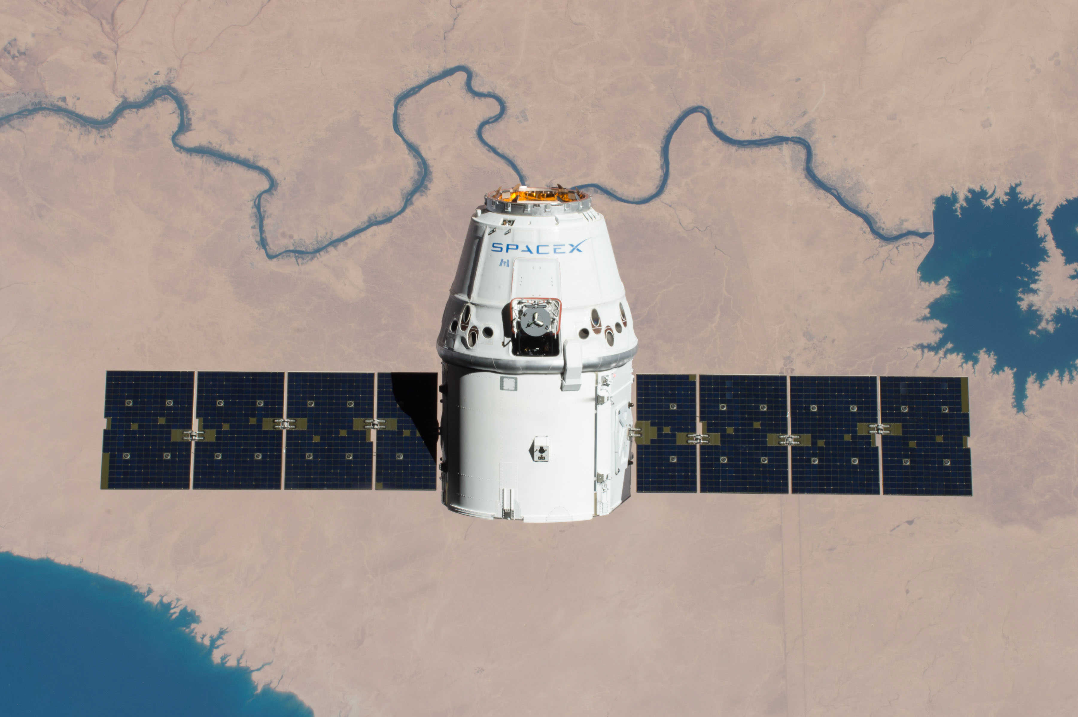 SpaceX CRS-11 Dragon approaching the ISS.